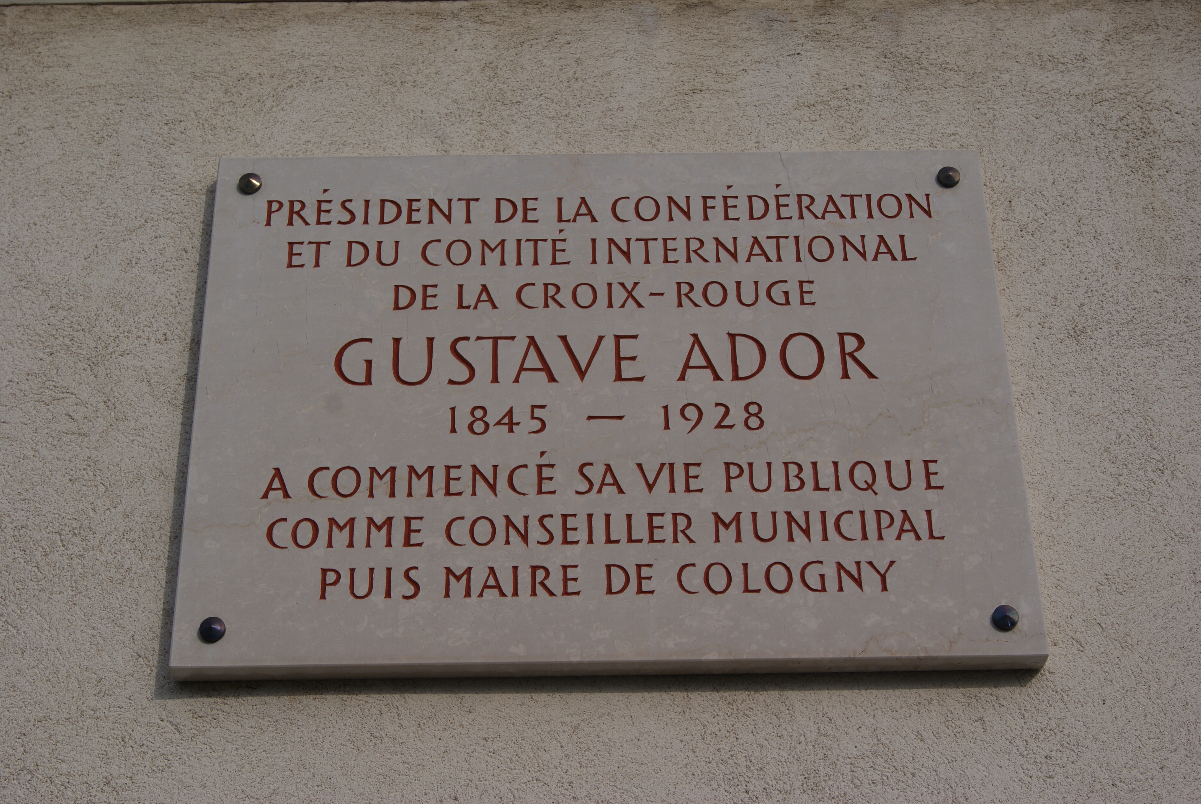 A plaque commemorating Gustave Ador (23 December 1845 – 31 March 1928), former President of the Swiss Confederation, at Le Manoir in Cologny, Geneva, Switzerland.